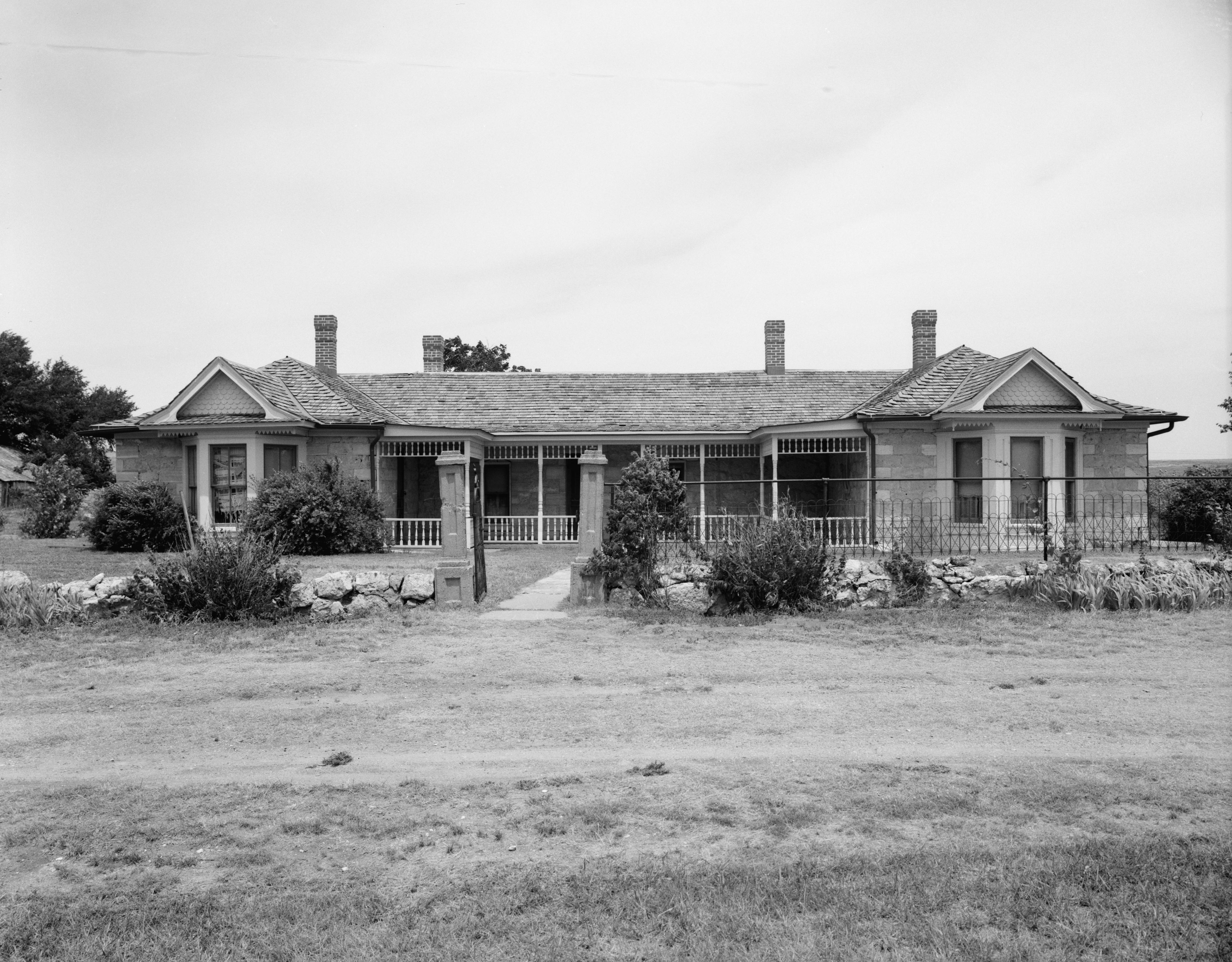 Southern side of the house at the John Fenton Pratt Ranch, located along U.S. Route 24 west of Studley in Valley Township, Sheridan County, Kansas, United States. Protected today as the Cottonwood Ranch State Historic Site, the ranch is listed on the National Register of Historic Places.